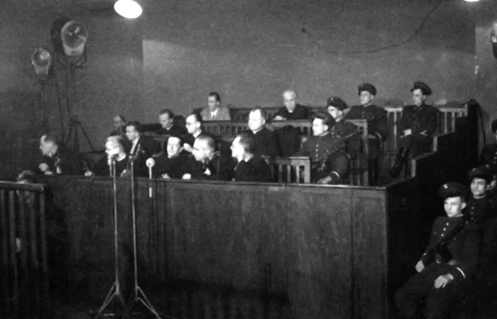 Historical photograph depicting accused Catholic priests during the Stalinist show-trial of the Kraków Curia, January 21-26, 1953.